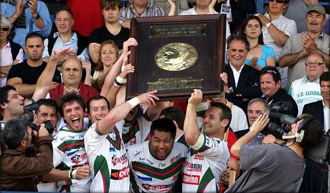 Lezignan players celebrating their victory in the finale of the 2008/2009 French Championship of rugby league versus Limoux.